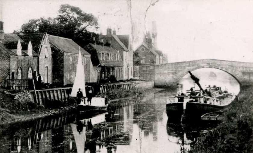 Hull Bridge (the ‘pre-1913 bridge’) circa.1900 This week’s picture from the past is a view of the River Hull at Hull Bridge around 1900. The new bridge was originally built in 1804, but by 1913 it was demolished by the County Council, who installed a steel rolling bridge in its place. This followed various long running disputes between the Beverley Corporation and Driffield Navigation. Once the Tickton bypass bridge had been built a short distance upstream, it no longer needed to carry road traffic and was replaced by a footbridge in 1976. (Why not try searching our East Riding of Yorkshire Map for more historic images? ) (Copyright) We're happy for you to share this digital image within the spirit of Creative Commons. Please cite ' ' when reusing. Certain restrictions on high quality reproductions and commercial use of the original physical version apply. If unsure please